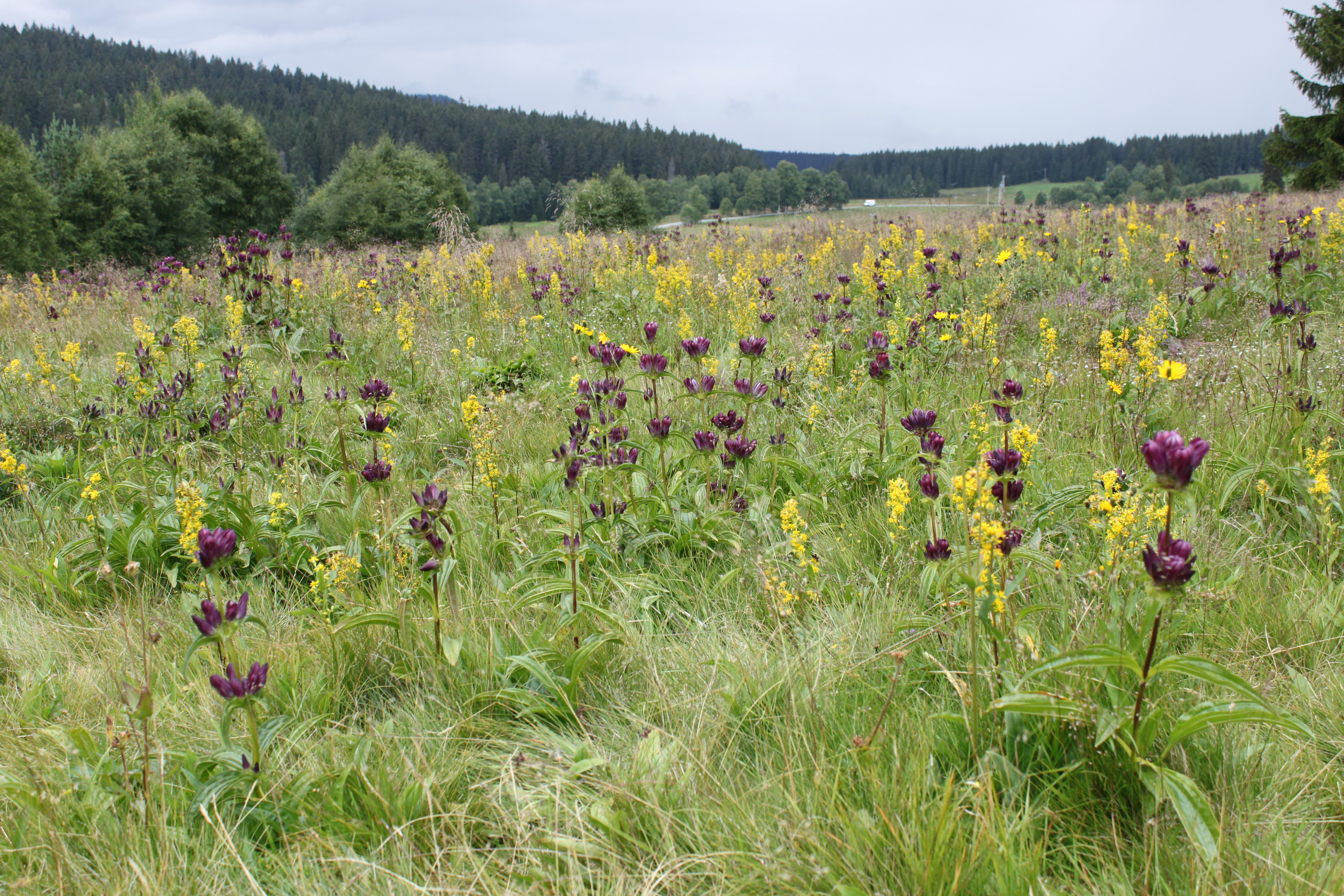 Natural Monument "Kvilda-Pod políčky" - southern part of the area with blossoms of Gentiana pannonica and Solidago virgaurea